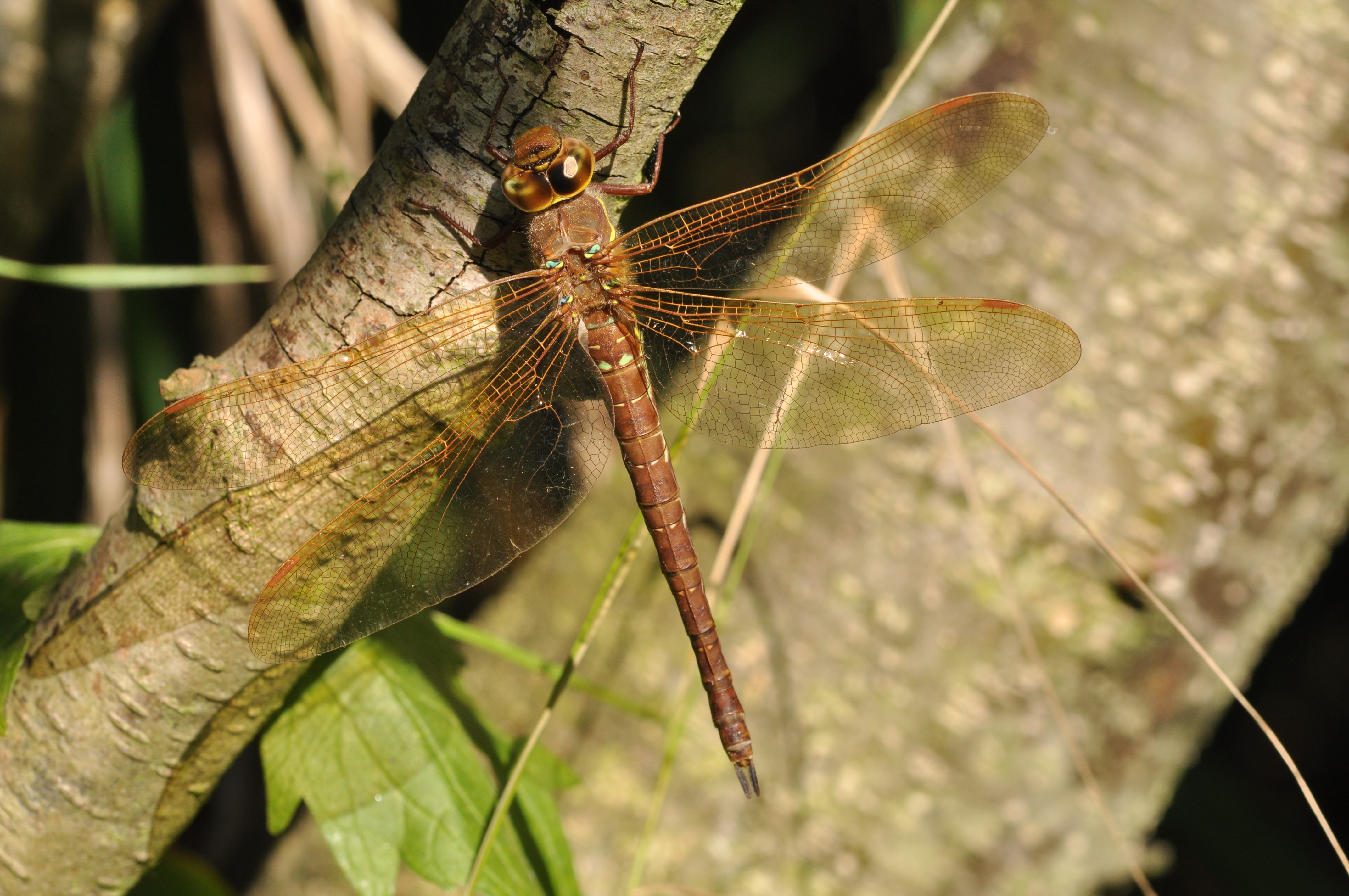 Brown Hawker resting female in Kirchwerder, Hamburg